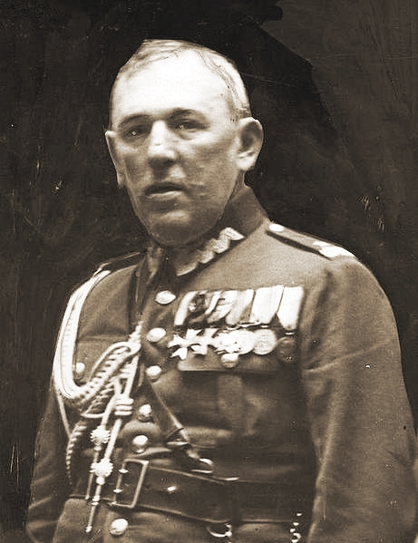 Bernard Stanisław Mond (1887-1957) - Polish general of Jewish origins.